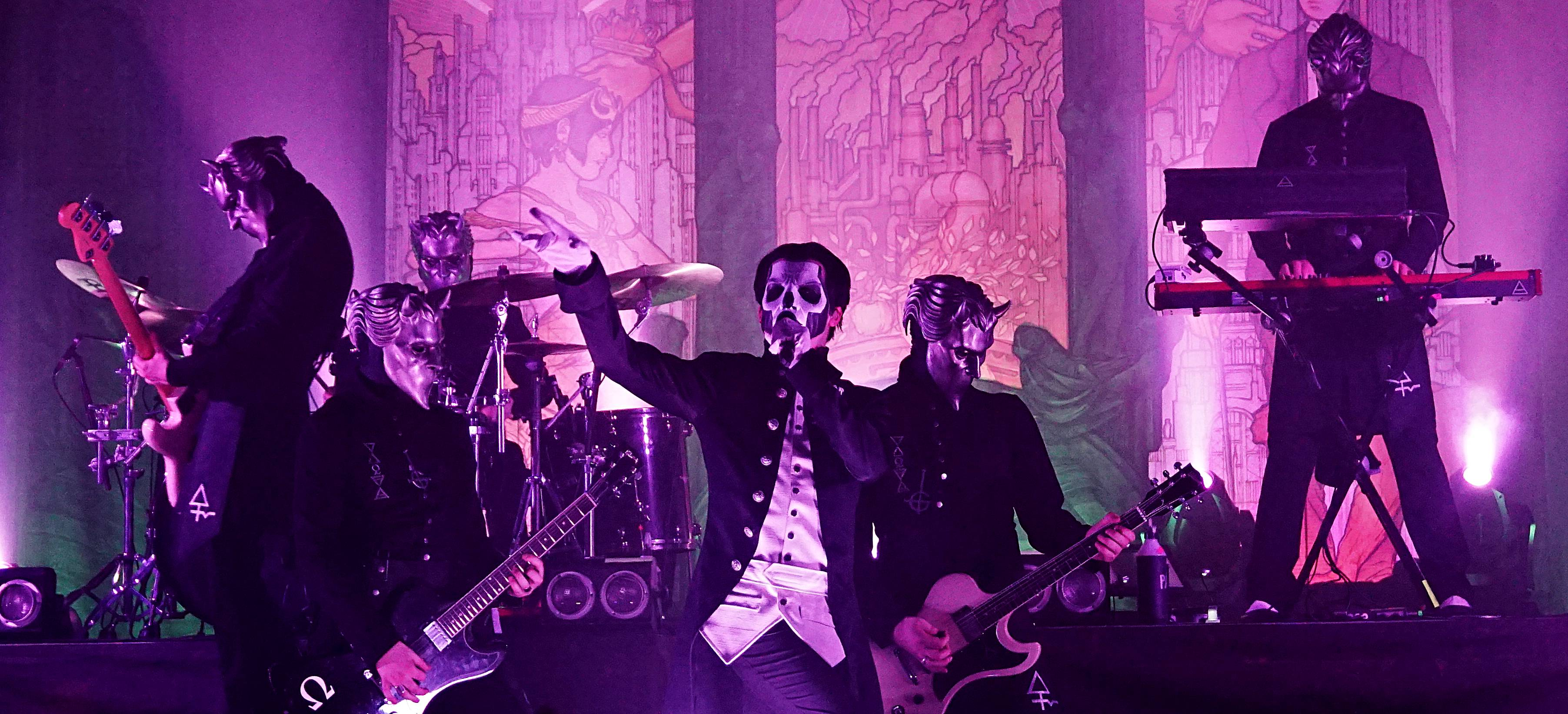 Ghost performing in Newcastle on December 16, 2015